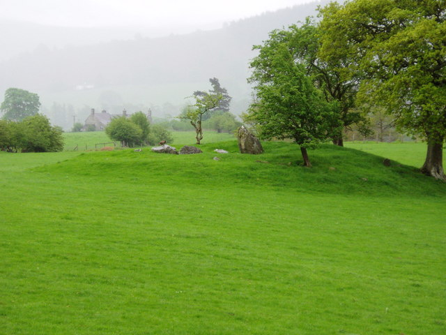 Branas Uchaf Chambered cairn. Impressive mound with the stone chamber still identifiable.